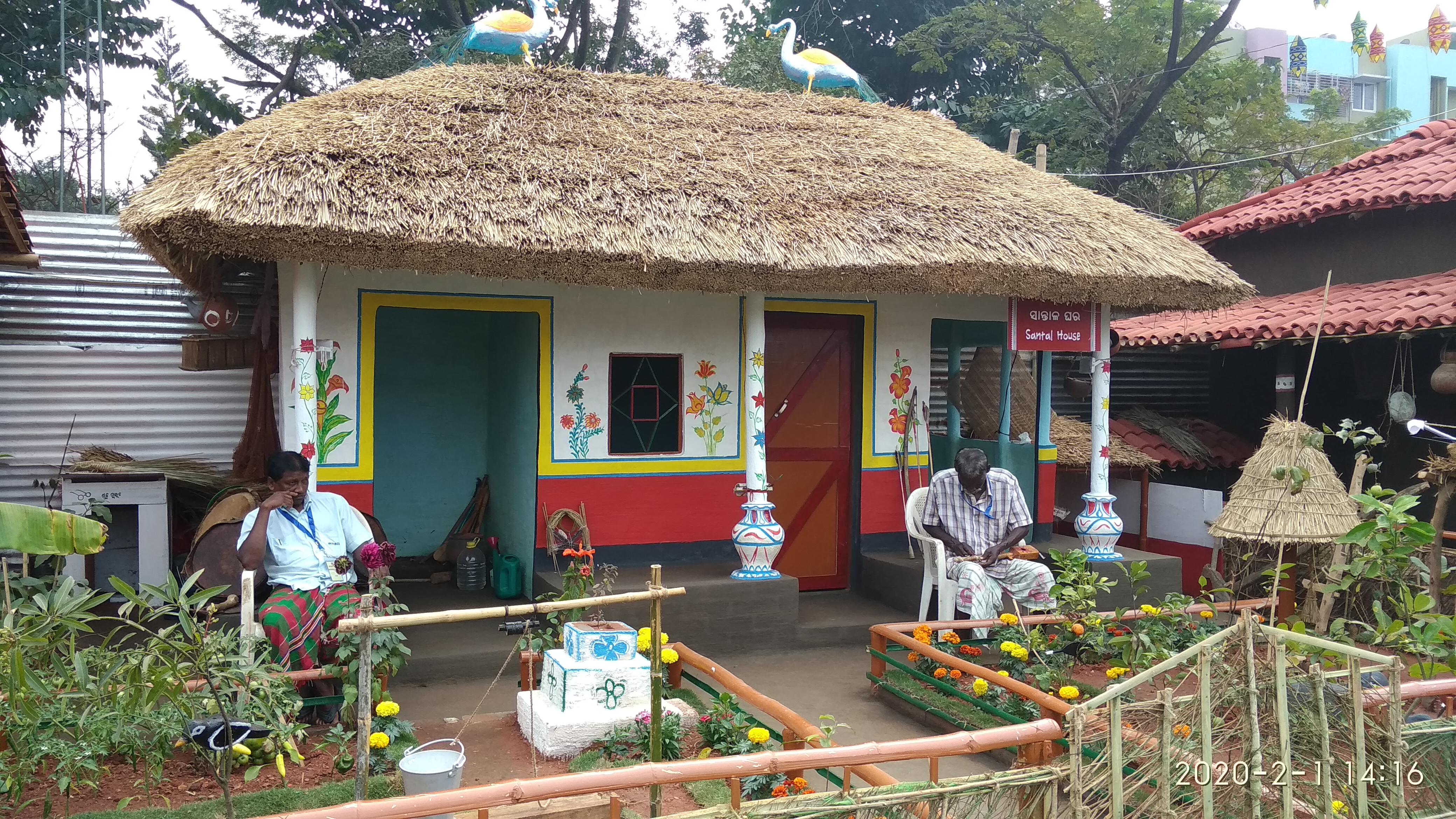 This photo has been taken in the country: India